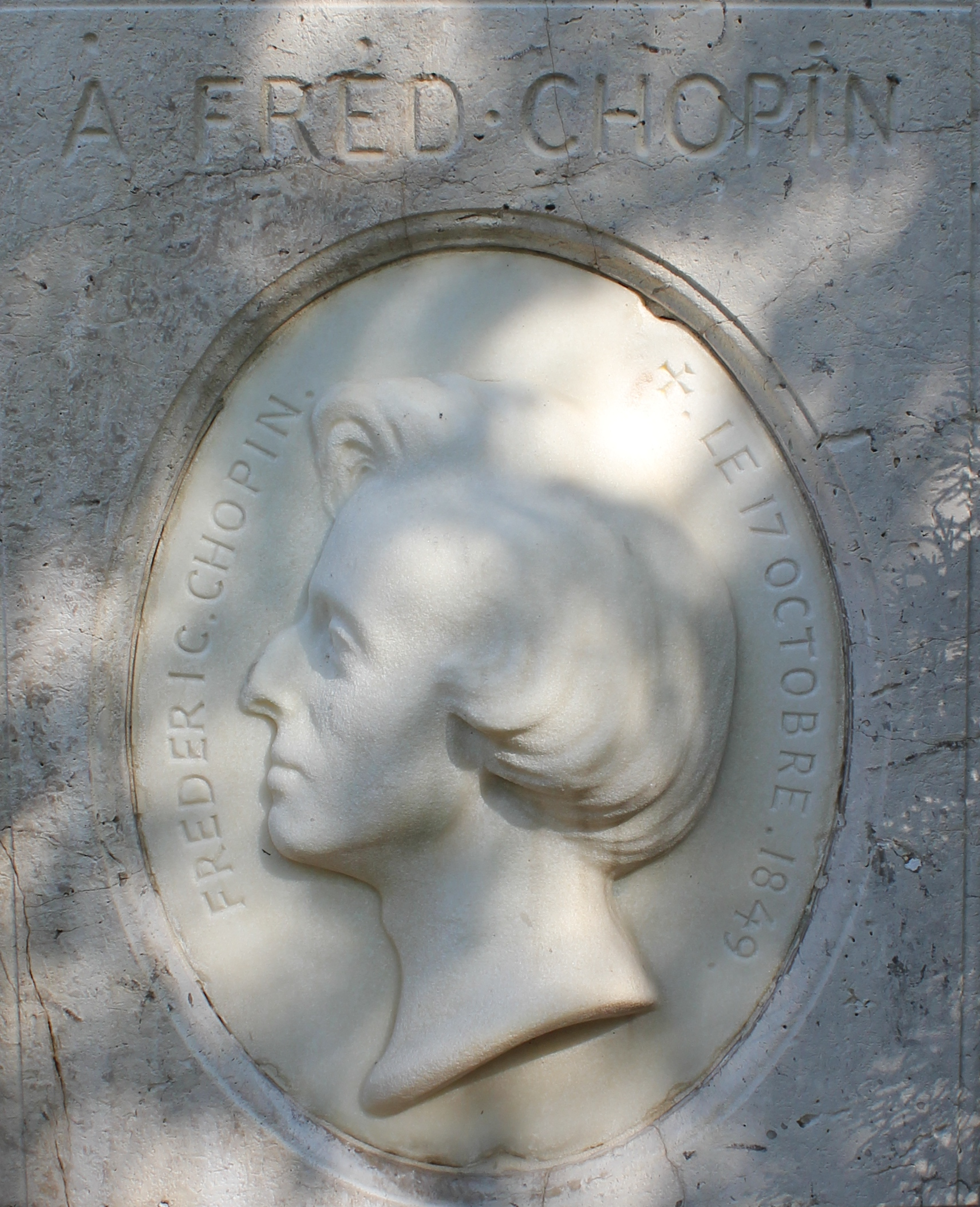 On the top of the tomb of Frederic Chopin : the marble statue depicting Euterpe, muse of Music.